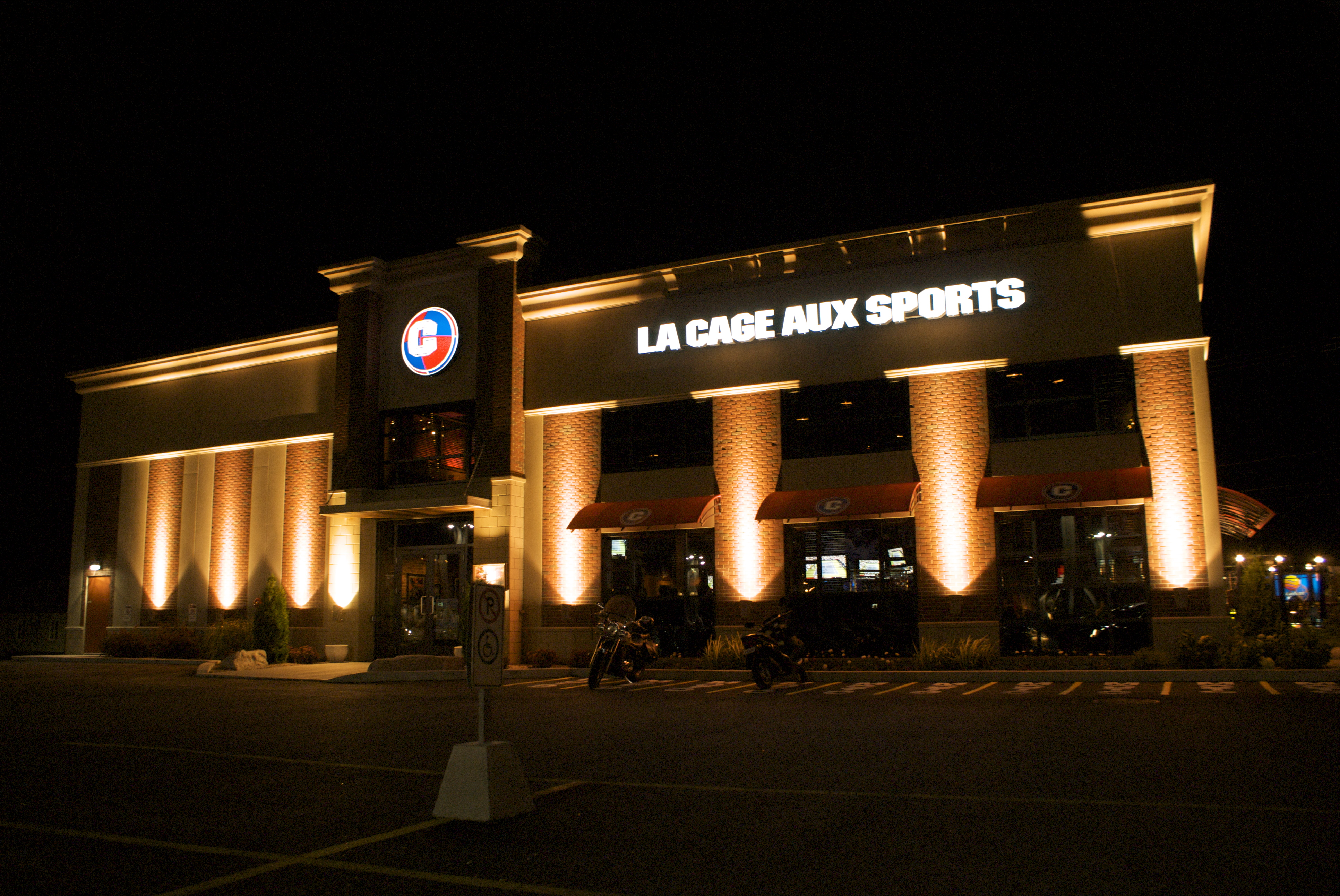 Cage aux sports